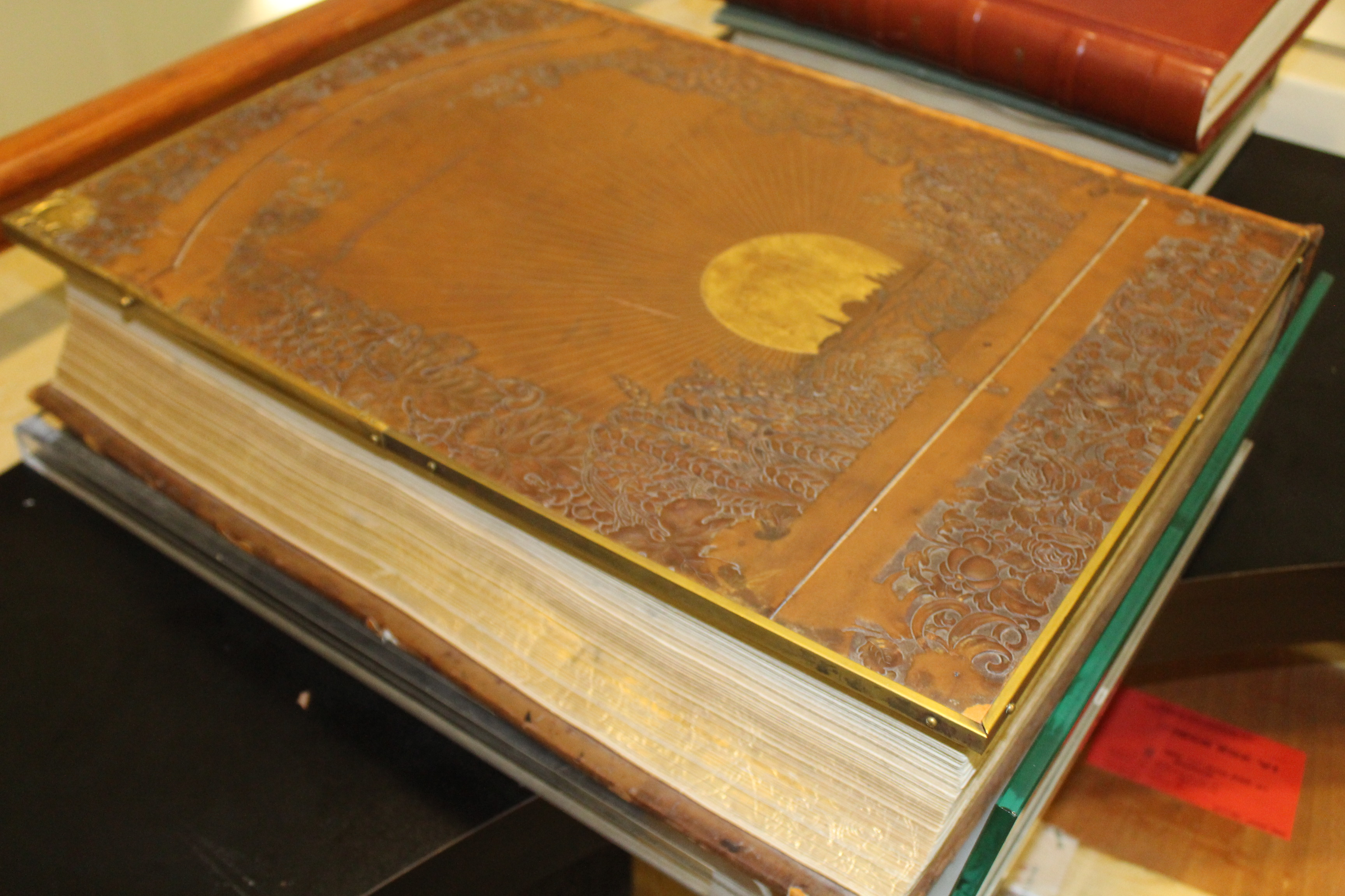 KKL-JNF Books of Honor, Binyan Hamosadot Haleumiyim, Jerusalem, Israel This image was taken as part of the Elef Millim project trip to Heichal Shlomo and The National Institutions House, in Jerusalem which was held on Friday, 15th November 2013. To view all images uploaded as part of the Elef Millim Project